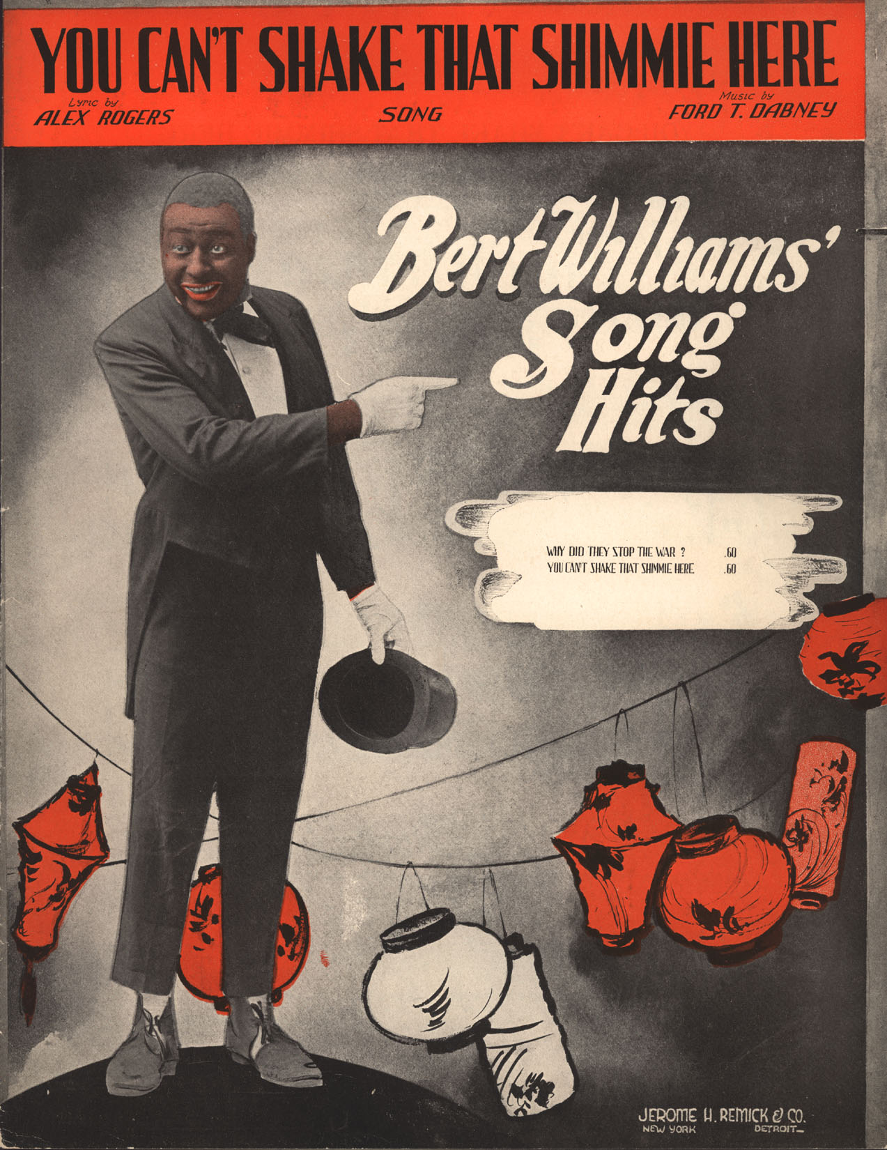 "You Can't Shake That Shimmie Here" sheet music cover, 1919, with photograph of Vaudeville headliner and recording star Bert Williams.